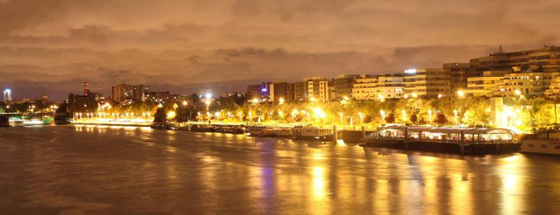 Levallois seen from Levallois bridge